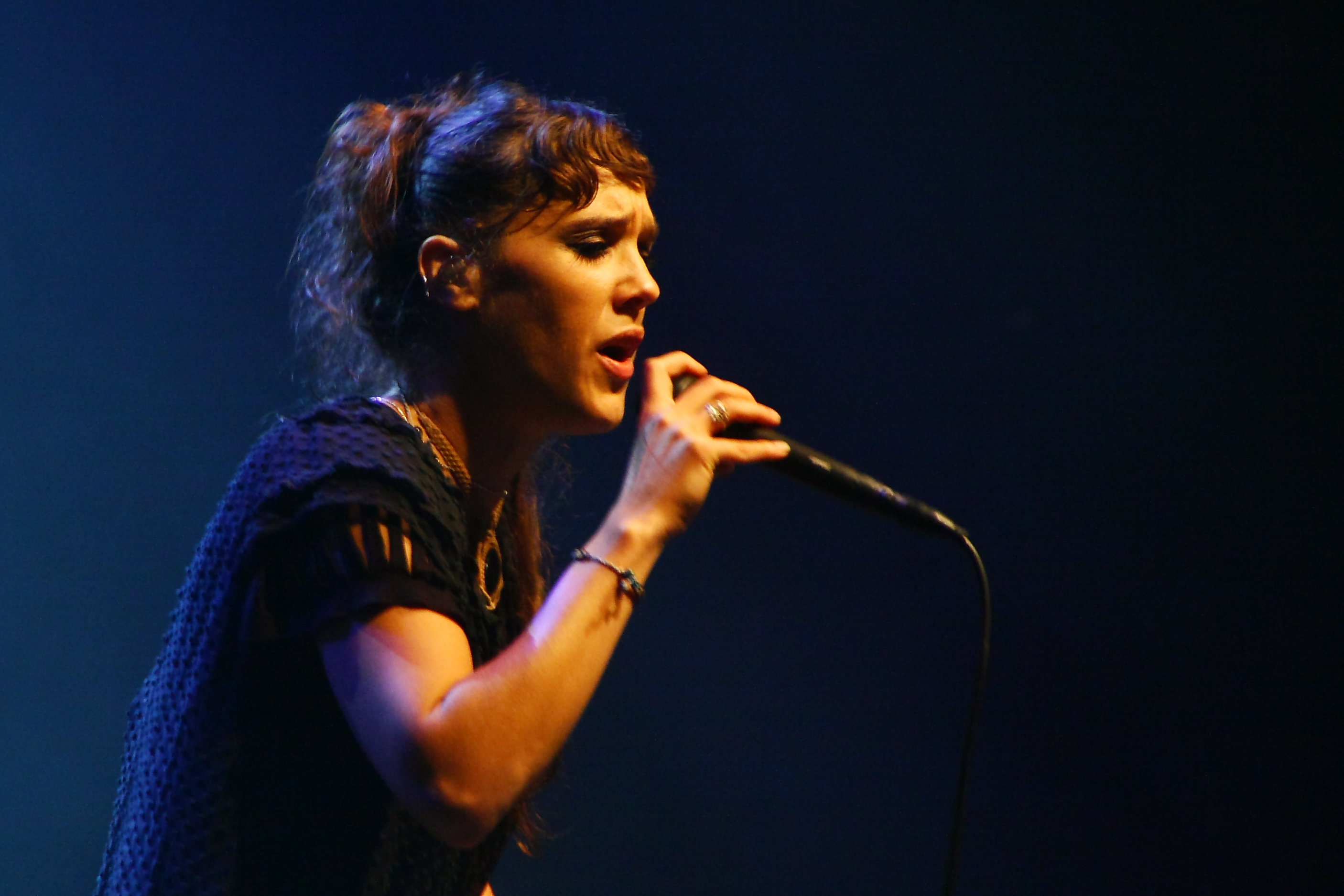 Zaz at TFF Rudolstadt 2011.